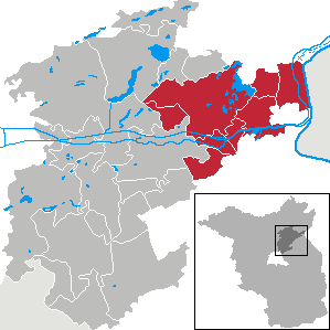 Amt (country subdivision) Britz-Chorin-Oderberg in Brandenburg - District Barnim